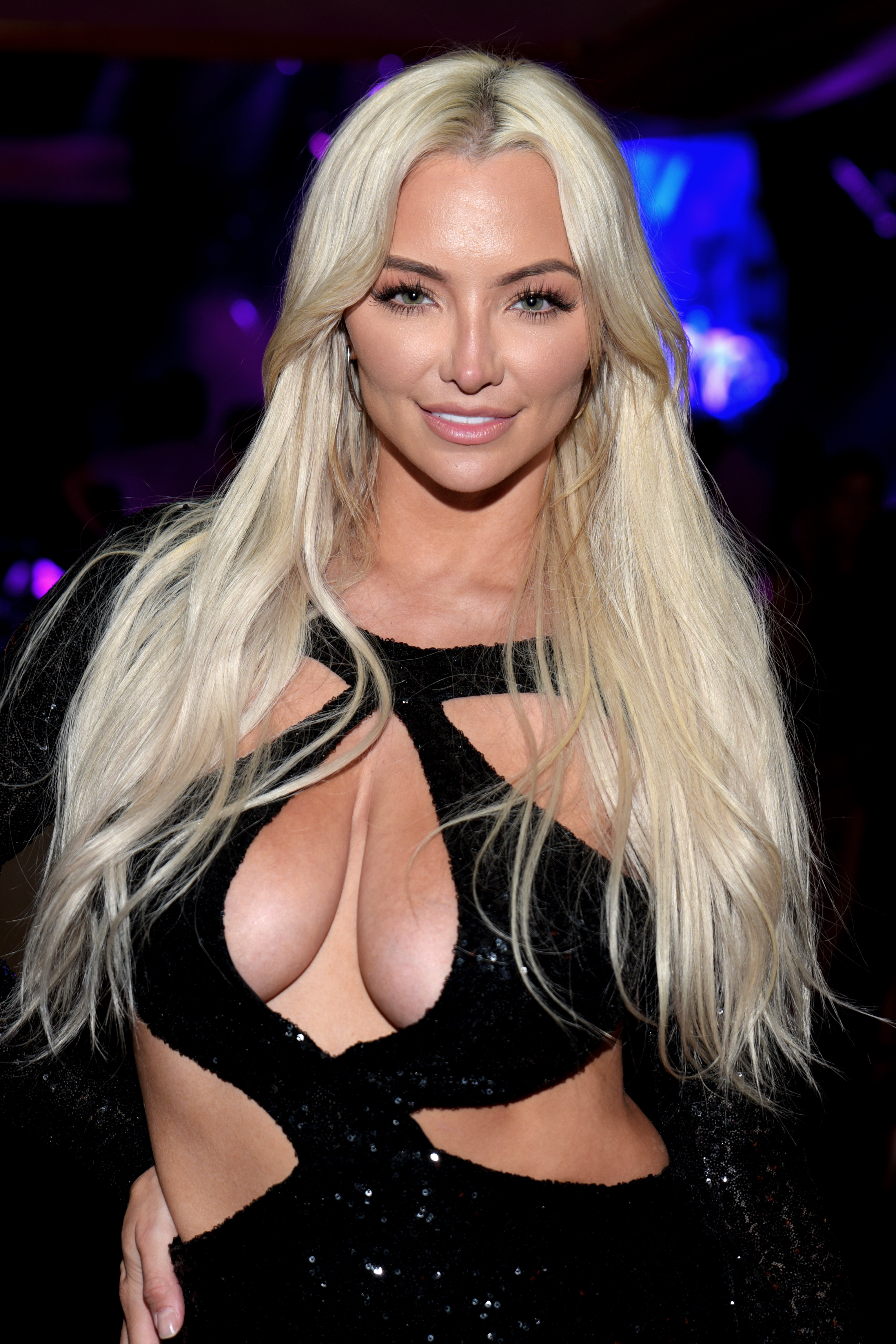 Lindsey Pelas at the Maxim Hot 100 Party on July 21, 2018 - Photo by Glenn Francis of